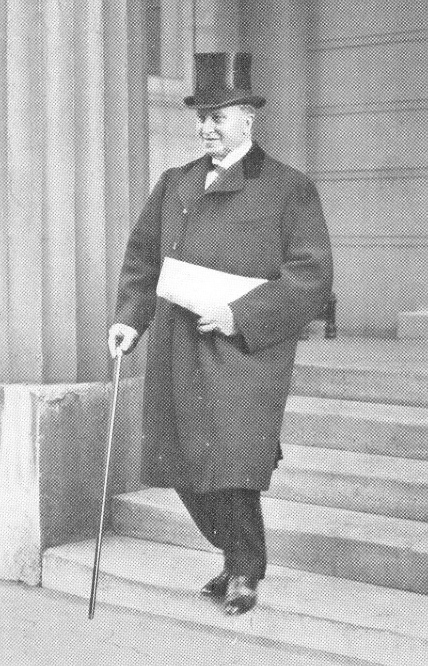 The caption reads: "The last photograph taken of Lord Curzon on his way to attend a cabinet meeting".